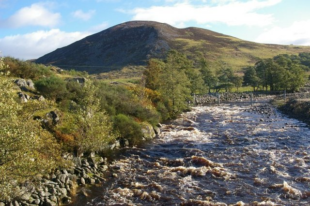 View along River E to mountains beyond, near to Bailebeag, Highland, Great Britain. The river is fast-flowing and peaty.